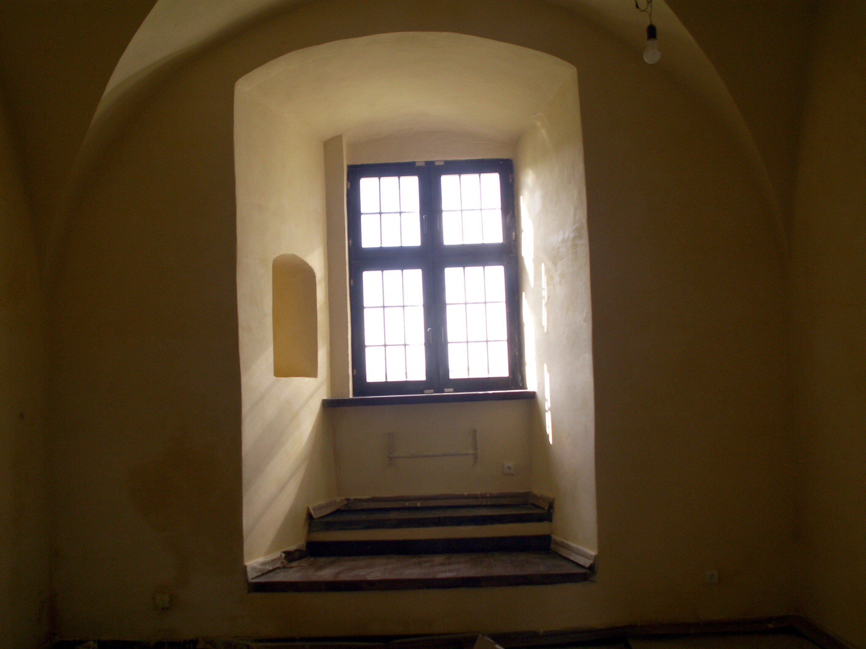 Kražiai collegium